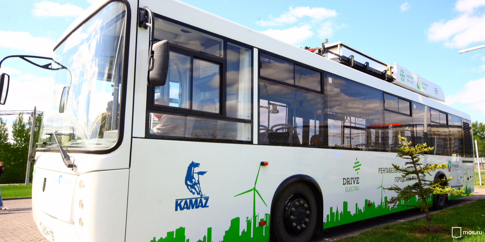 Russian electrobus KAMAZ-6282